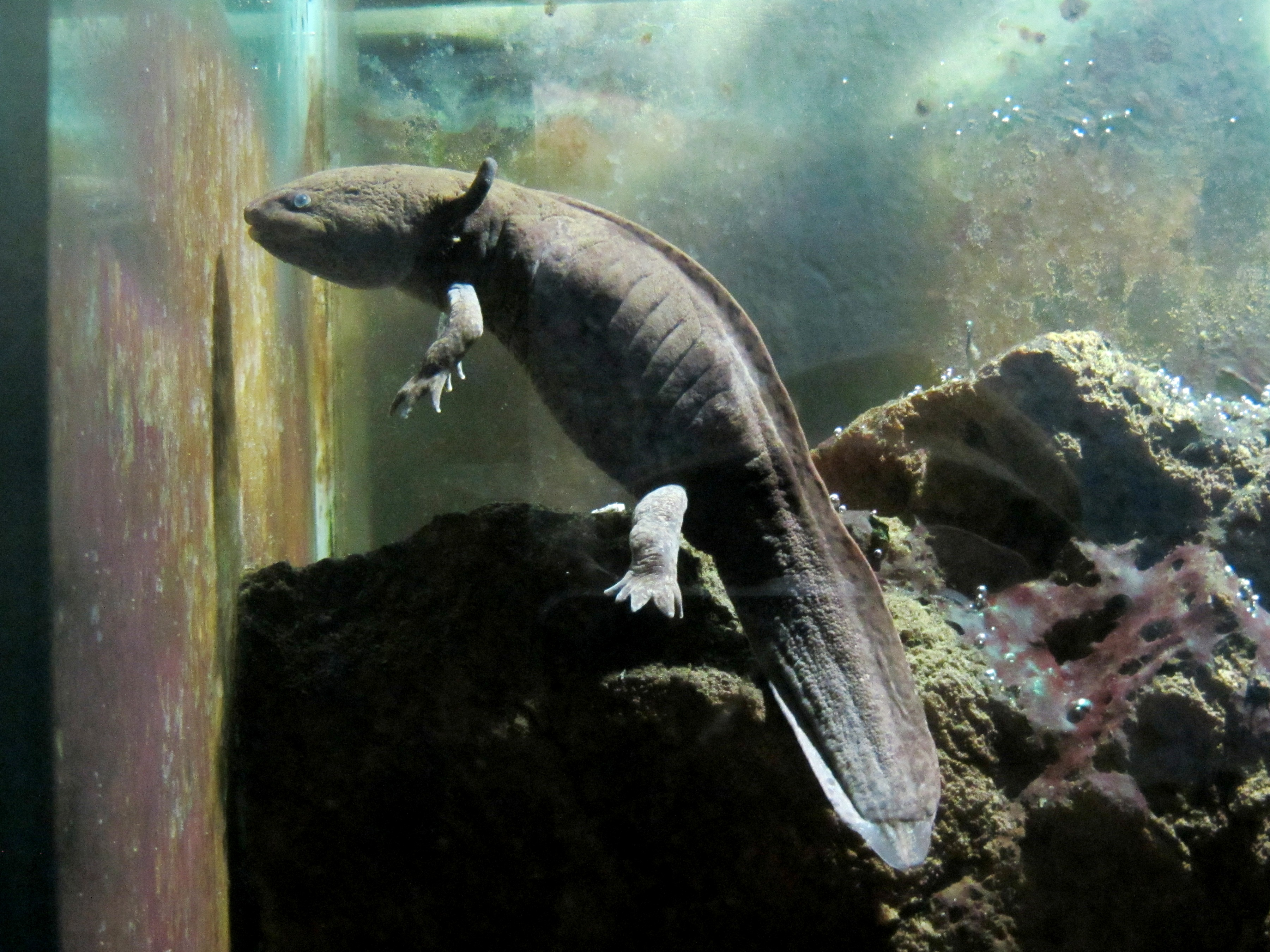 Mexican axolotl (Ambystoma mexicanum)